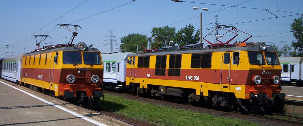 EP09-030 and EP09-047 locomotives.